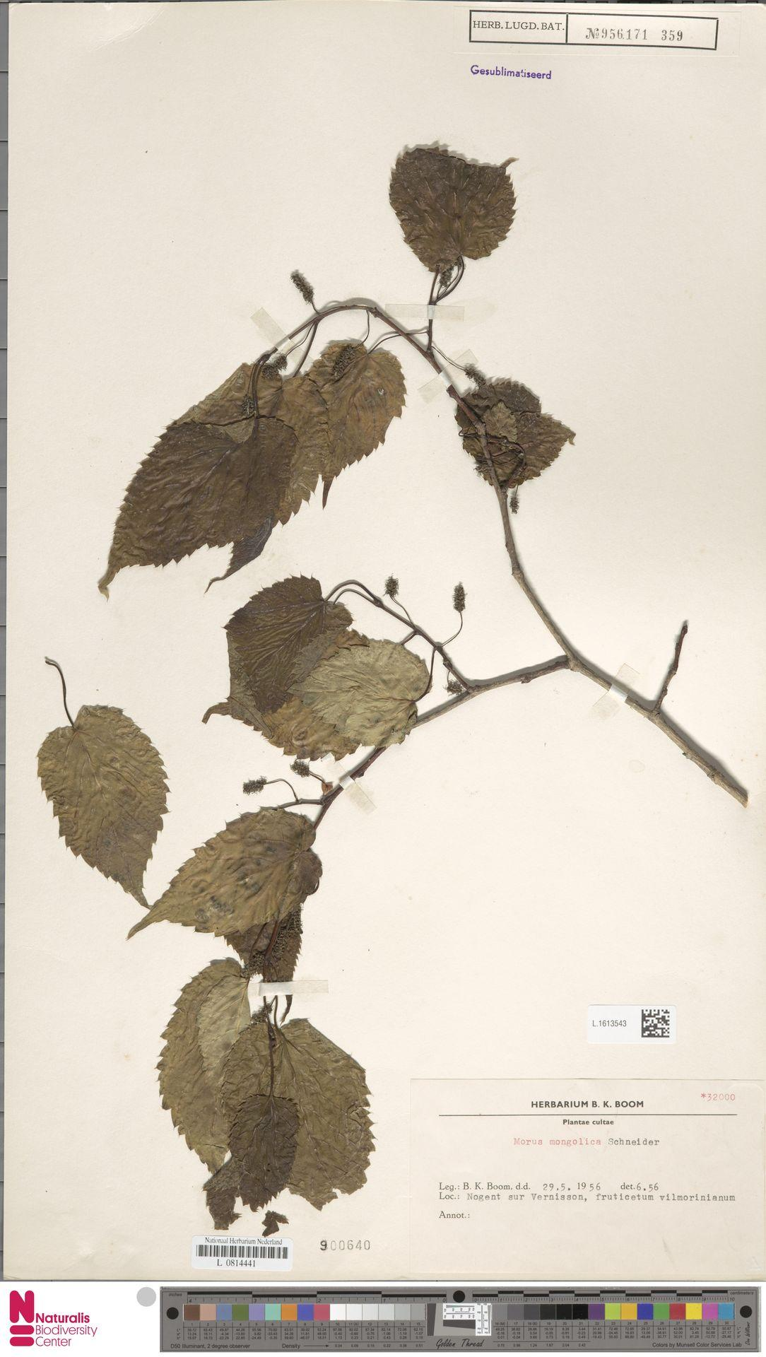 This photograph is of a segment of a [Morus mongolica] branch. It includes the leaf structure and node placements to provide botanical information. Retrieved from the Naturalis Biodiversity Center.